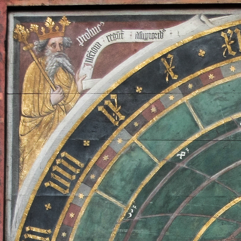 Claudius Ptolemaios on the Astronomic Clock in the Nikolaikirche, Stralsund, Germany